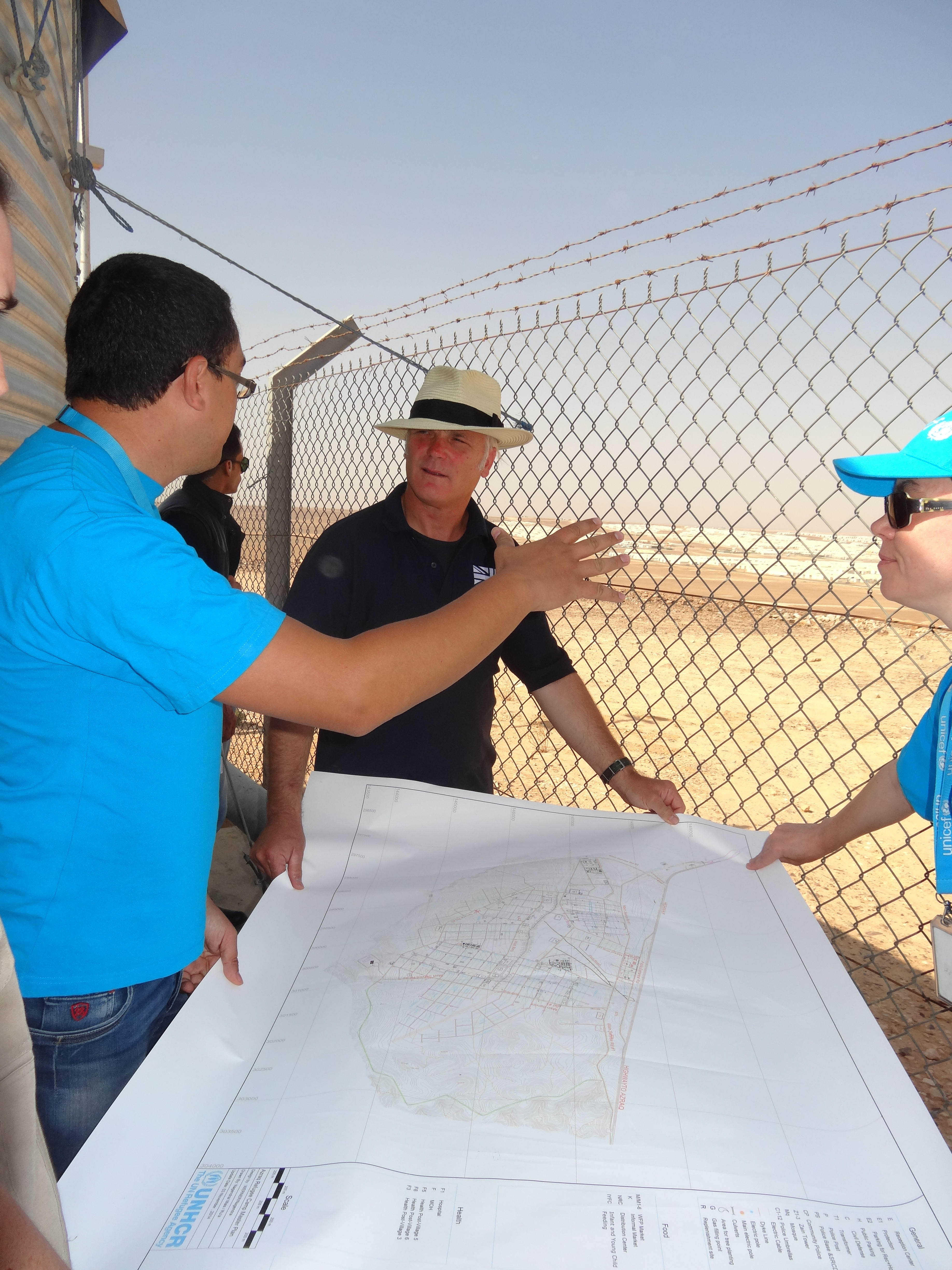 DFID - UK Department for International Development International Development Minister Desmond Swayne visits Jordan Desmond Swayne is briefed by UNICEF on water pumping for Azraq Refugee Camp in Jordan.